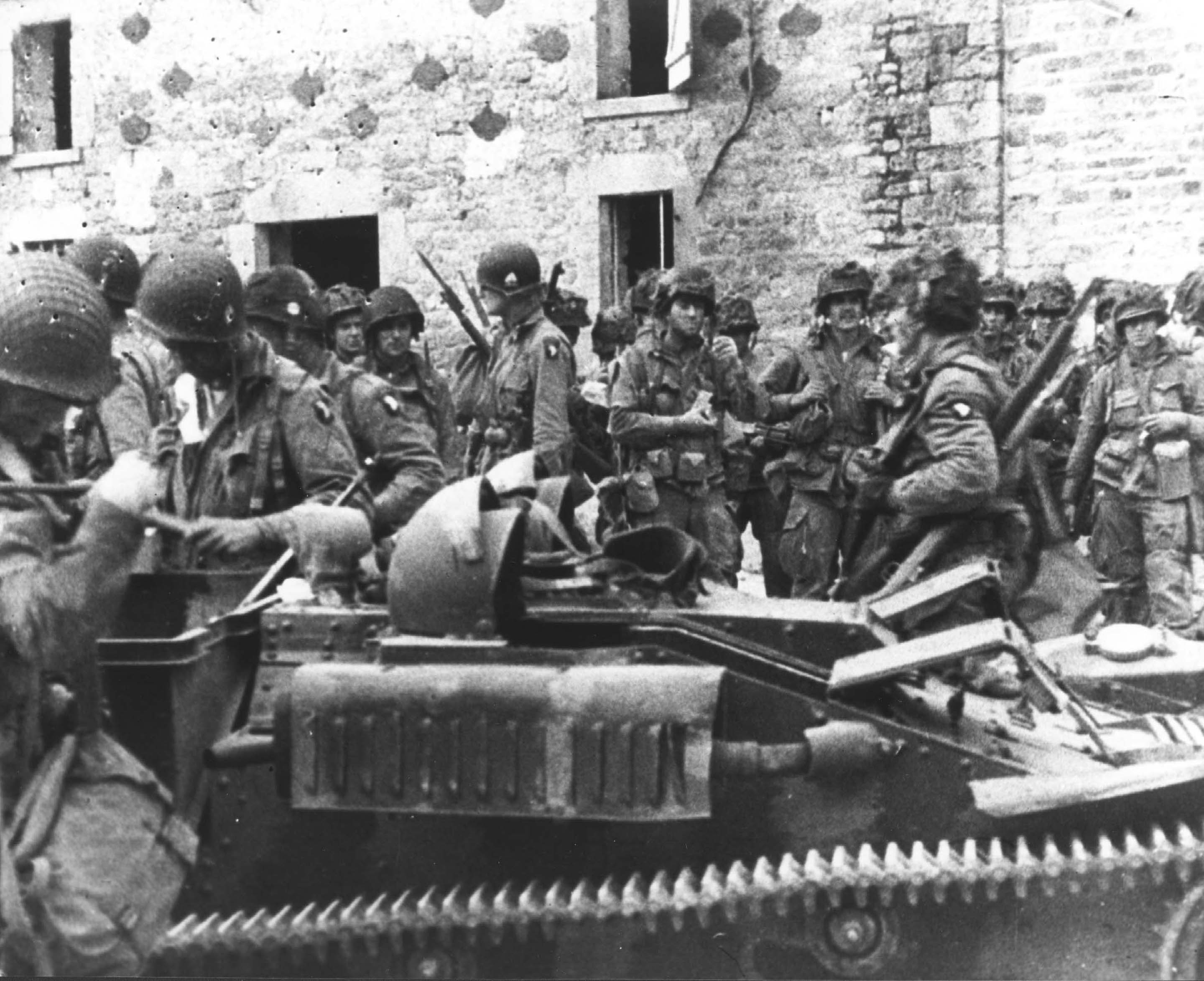 Some paratroopers of the 377th PFAB (A and D companies), 3/502th (B, C and HQ companies), 506th (A, D and E companies) and 508th Parachute Infantry Regiment of the 101st Airborne Division in Marmion Farm, Ravenoville, Utah Beach, France. From here they will move on into the continent, accomplishing their assigned objectives.